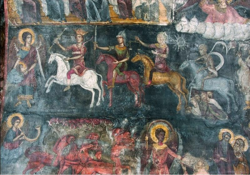 THE CHURCH OF THE DORMITION OF THE THEOTOKOS IN ASKLIPIO, RHODES